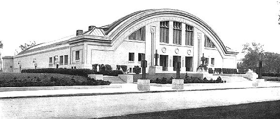 Original Pattern Gymnasium at Northwestern University